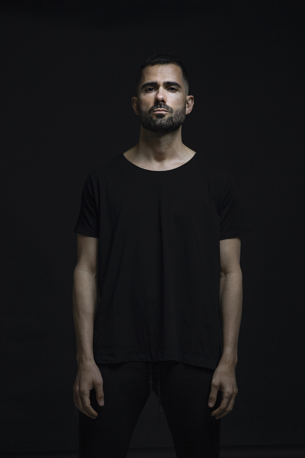 Albert Neve 2018 profile picture